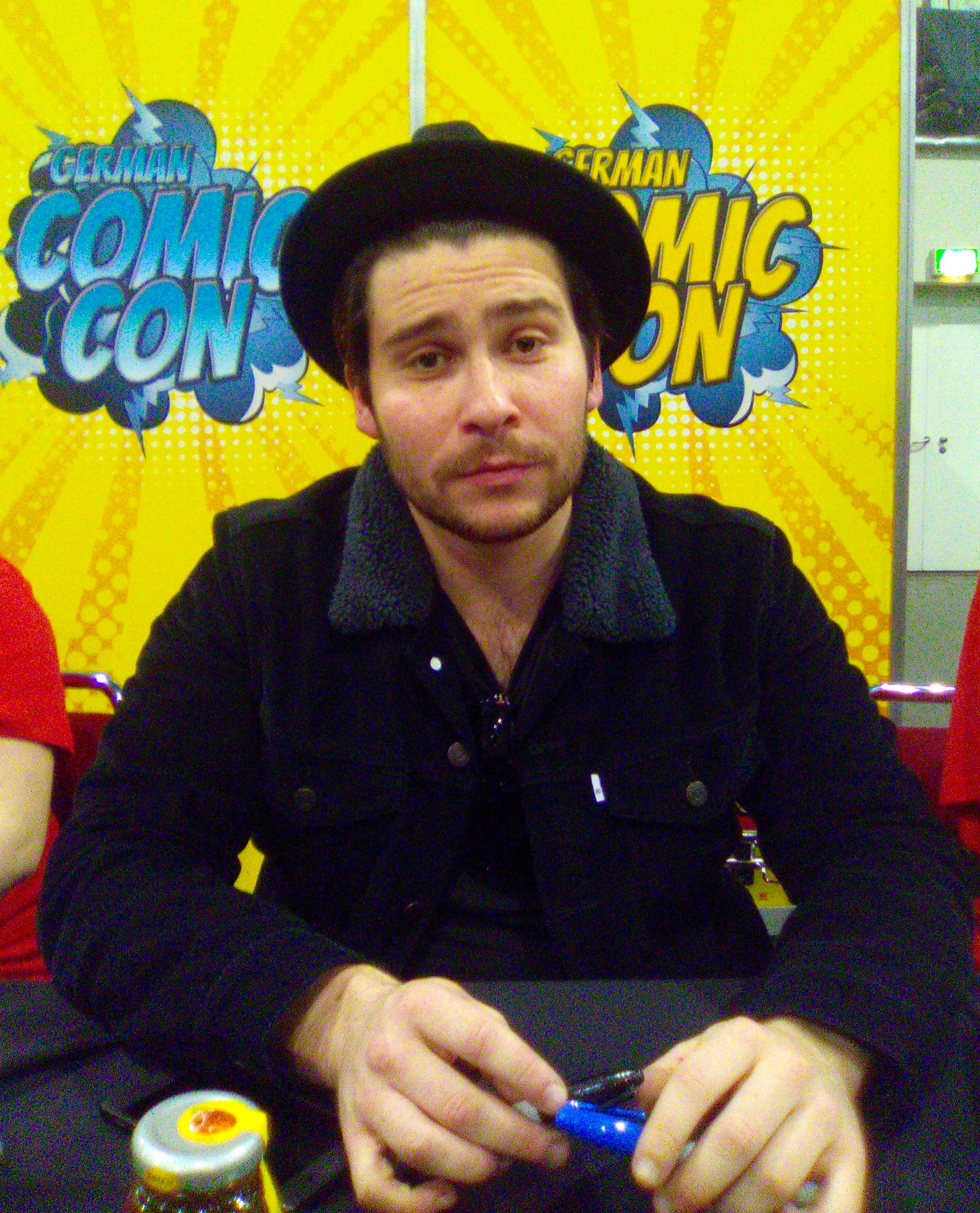 Daniel Portman at the German Comic Con 2016 in Dortmund.